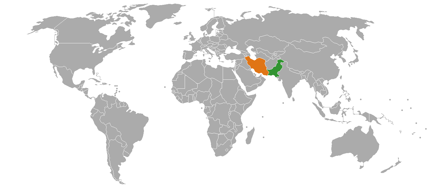 Map of the world showing Iran and Pakistan, created for Iran-Pakistan relations article.